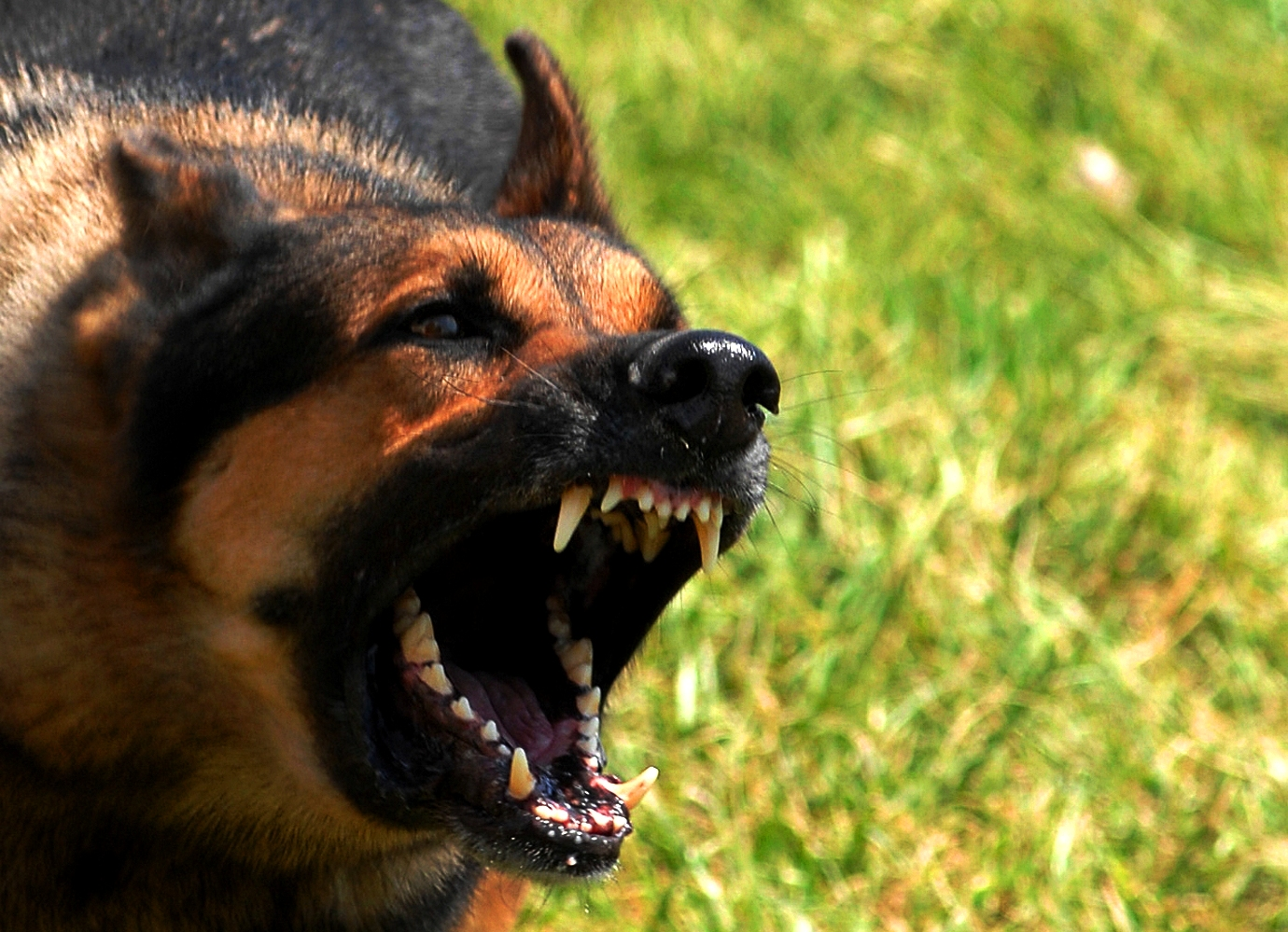 Angry german shepard.